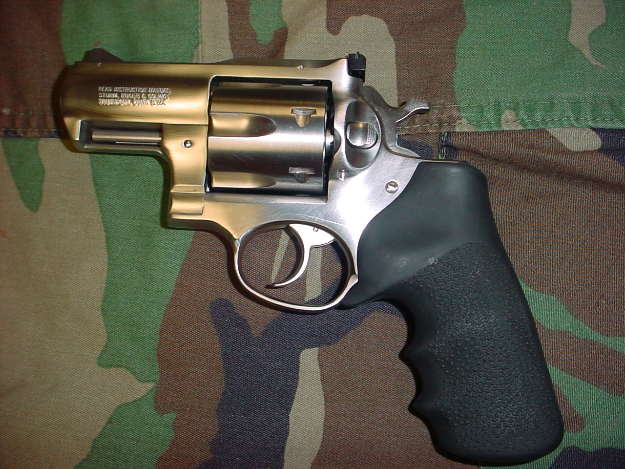 Ruger Super Redhawk Alaskan in .44 Magnum This is a photo of a Ruger Super Redhawk Alaskan Revolver for the corresponding article "Ruger Alaskan."